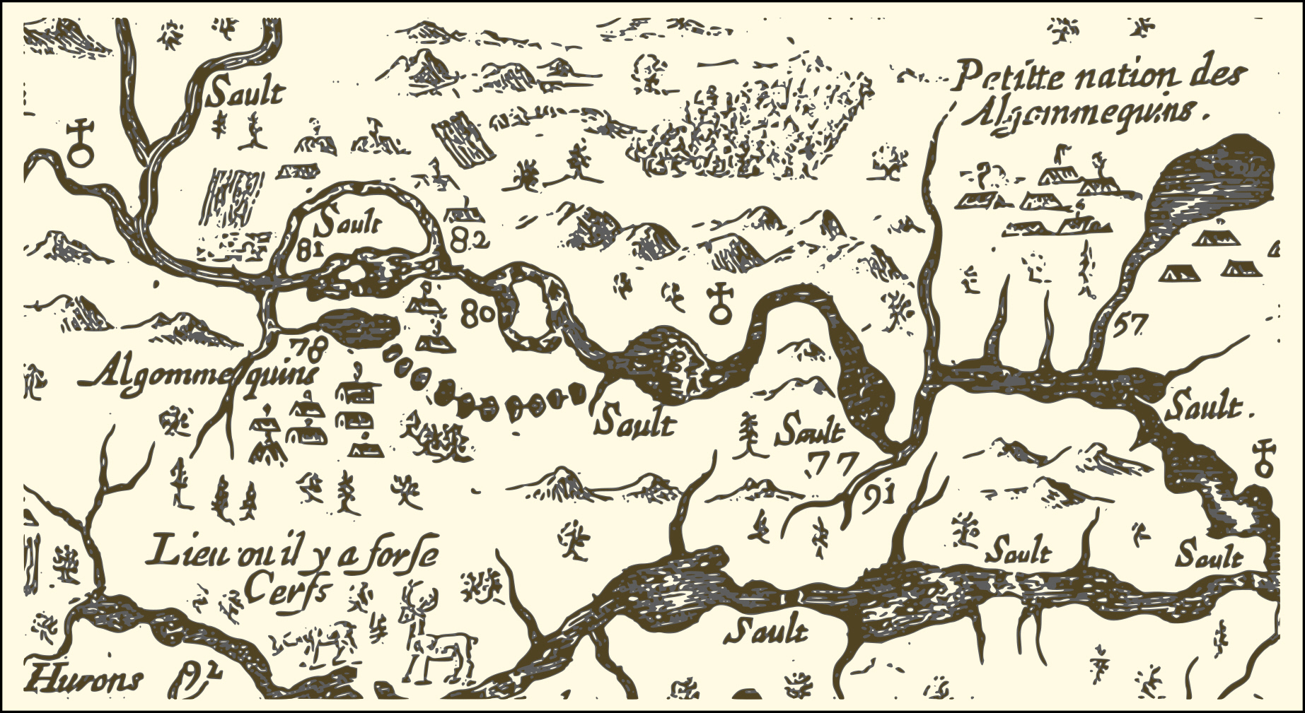 An extract from a map of the eastern reaches of New France, showing a portion of the Ottawa River. The map was created in 1632 by Samuel de Champlain to show the route he took in 1616, with numbers used to indicate sites he visisted, significant rapids and aboriginal encampments. In particular, Numbers 77 and 91 correspond to the locations of the modern-day City of Ottawa and the Rideau River respectively; Number 80 marks the location of the large rapids south of Calumet Island; Number 81 shows the site of Allumette Island, inhabited at that time by members of the Algonquin nation; Number 82 corresponds roughly to the location of the modern-day village of Fort-Coulogne, and an Algonquin settlement that existed at the time of Champlain's travels; and To the north, the tree and mountain symbols presumably show the large expanses of pine forest.